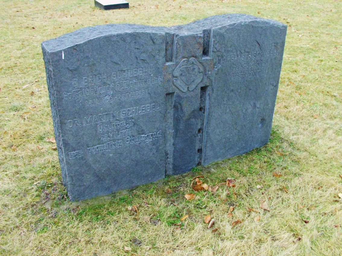 Grave of Erich, Martin and Margarete Schlegel